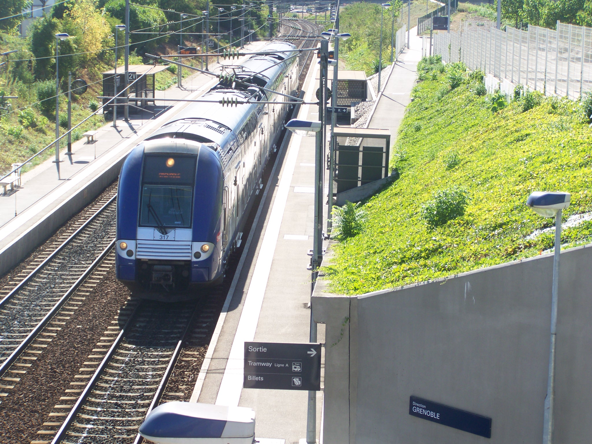 French commuter train coming from the university campus of Grenoble and bound to Grenoble downtown (situated 10km away) is stopping at its only stop: Échirolles.